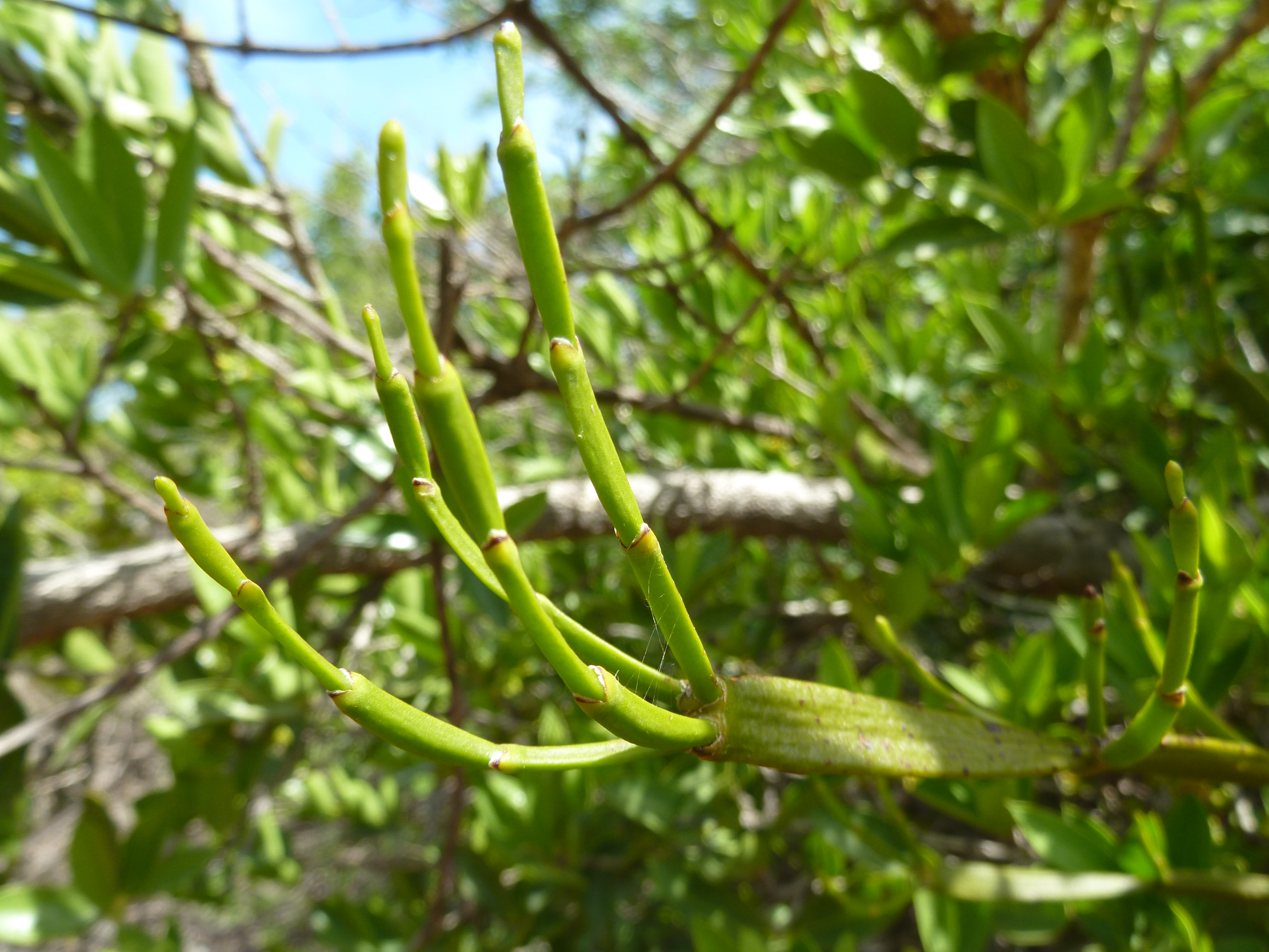 Twig segments of a Combretum mistletoe growing on Spine-leaved monkey-orange (Strychnos pungens) on a rocky ridge at Seringveld near Pretoria